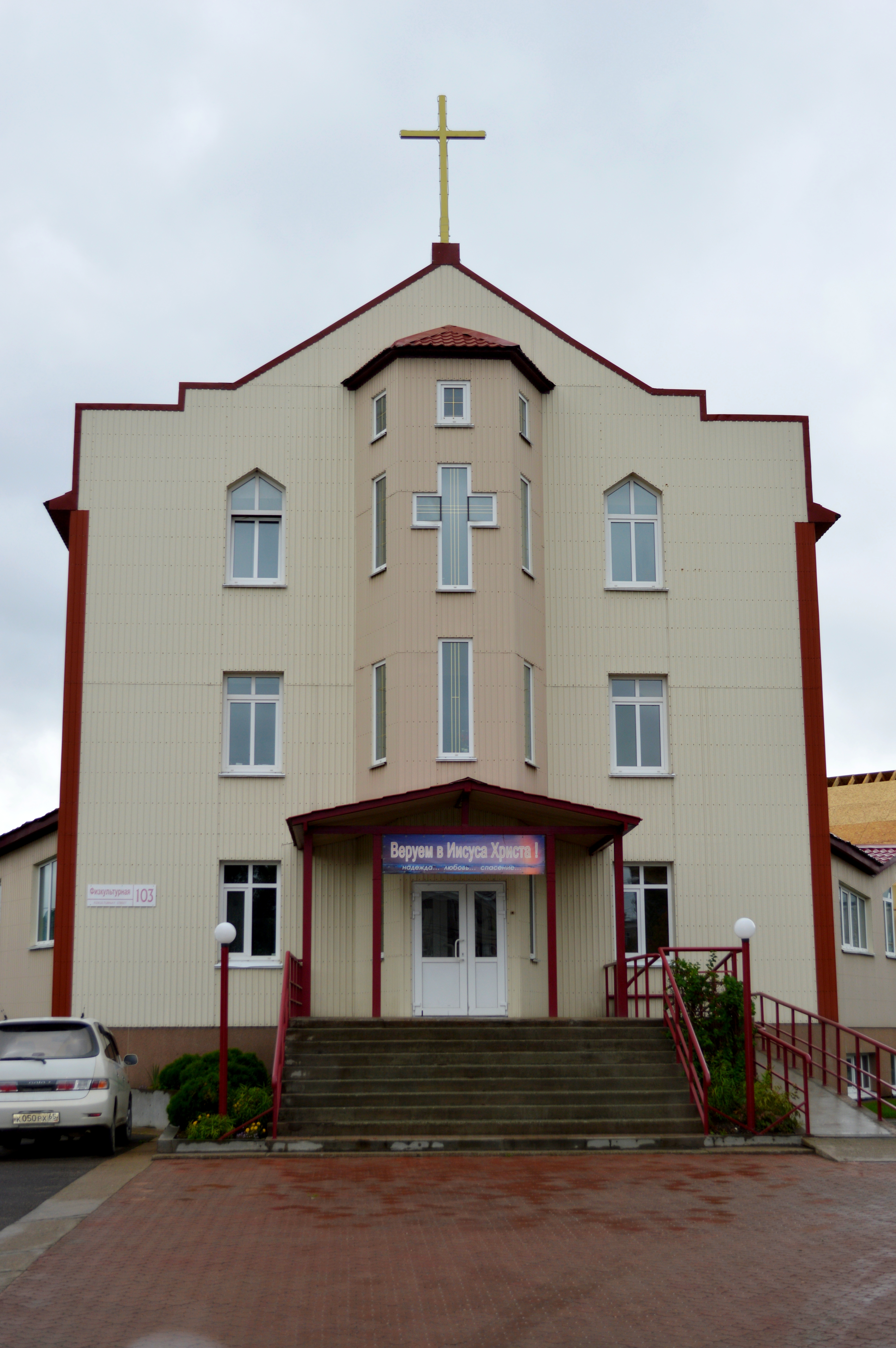 Baptist church in Yuzhno-Sakhalinsk